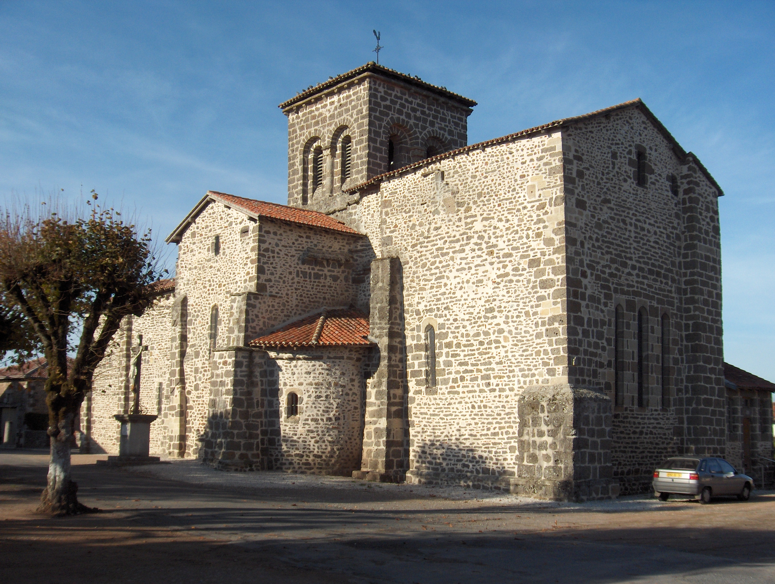 Church of Chassenon - Charente - France - Europa